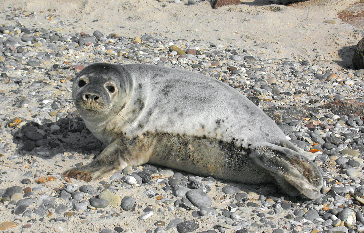 Grey Seal